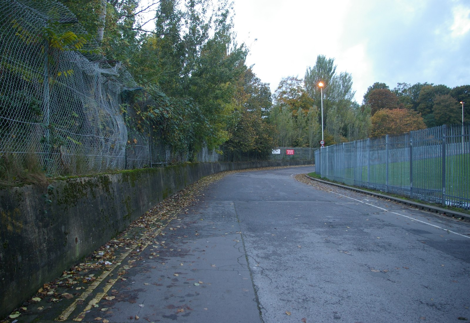 Last survival of Crystal Palace Motor Racing Circuit